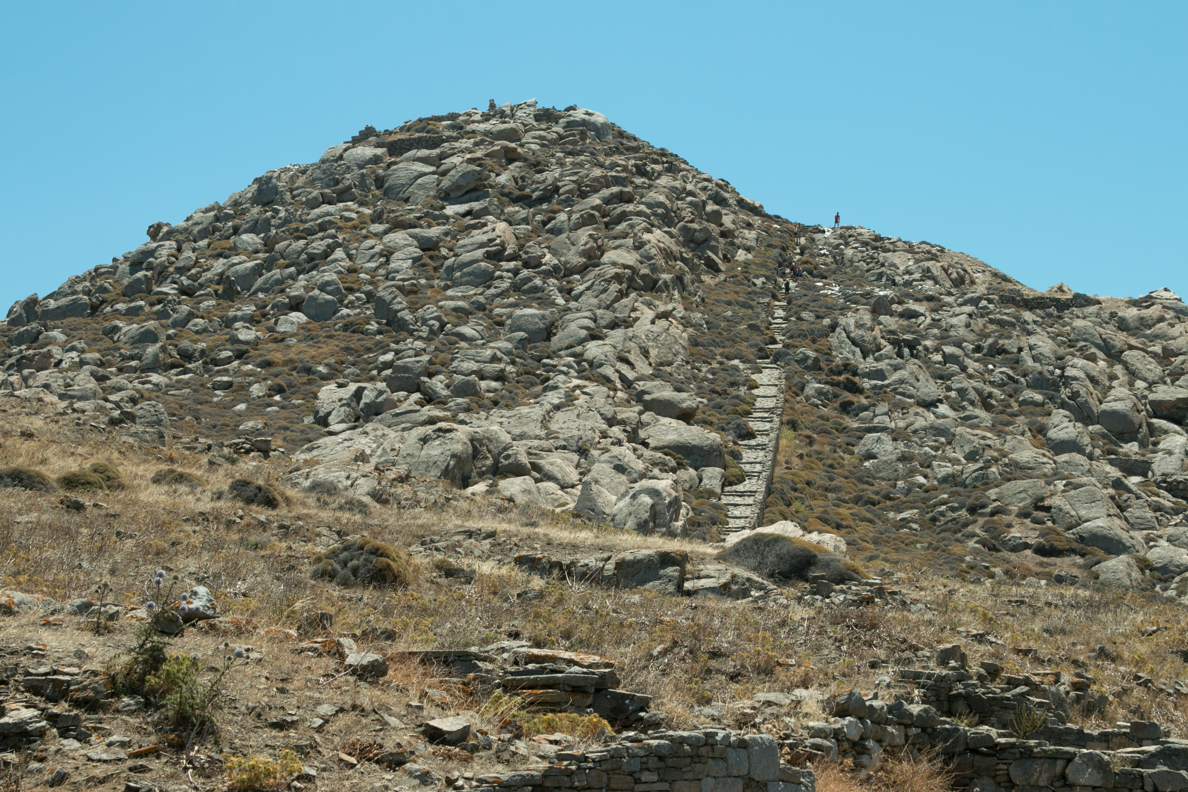 Mount Kynthos in Delos.